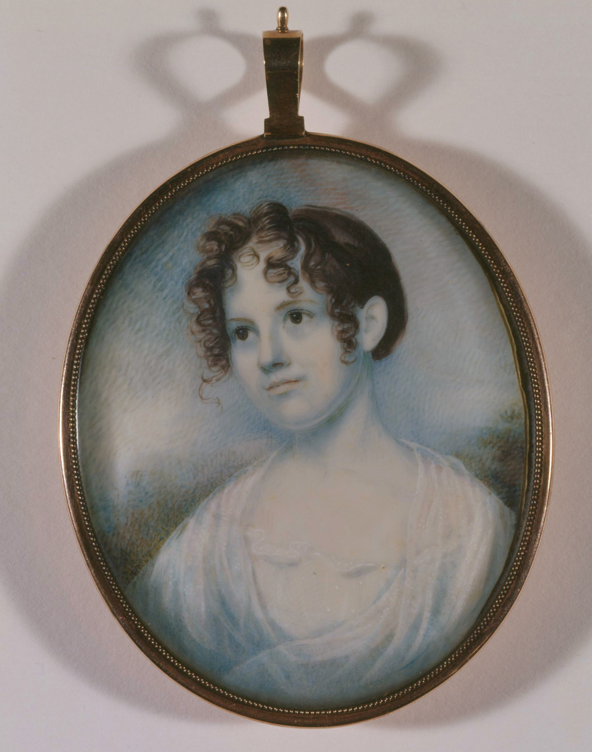 Object ID: 1963-02-7 Category: Images of People Medium: watercolor on ivory Creator: Anson Dickinson (1779-1852) Date: 1812 Held at: Litchfield Historical Society Associated Place: New York City, NY Size: 2 7/8" length x 2 3/8" width Description: Oval ivory miniature. Bust portrait of a young woman facing left. Brown hair with curls framing her face. She wears a white mull empire style dress and shawl. Pale complexion. The background has a simple landscape. Incased in an oval gold frame with a beaded inner edge. On the back side of the frame is a double row of scalloped lines and a beaded edge.